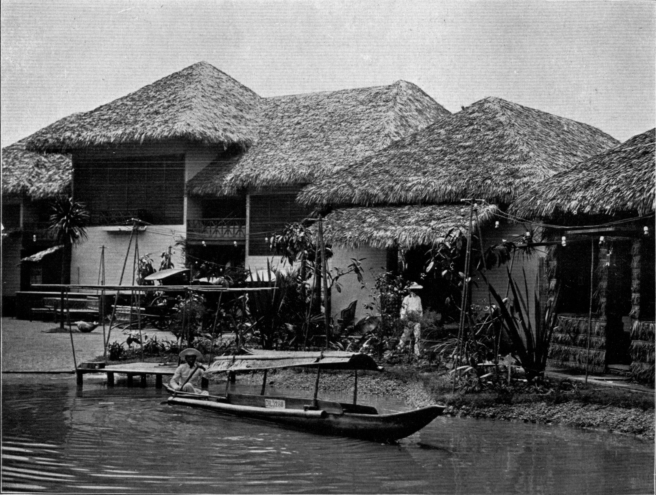 Original caption: "In the Philippine Village - It is worth going on a long journey just to see the Philippine Village at the Pan-American. In the houses of the village the native style of architecture is followed throughout. The roofs are thatched with nieper, as seen in the picture. Native customs are fully illustrated."